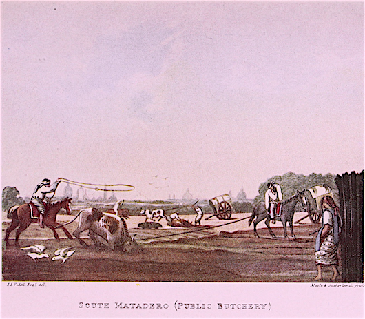 South Matadero (Public Butchery)